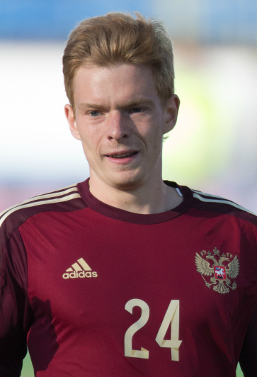 Pavel Mogilevets in action for Russia national football team